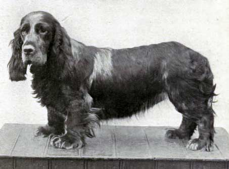 Ch. Clareholm Dora from the 1909 book Everyman's Book of the Dog. Photo from page 101.